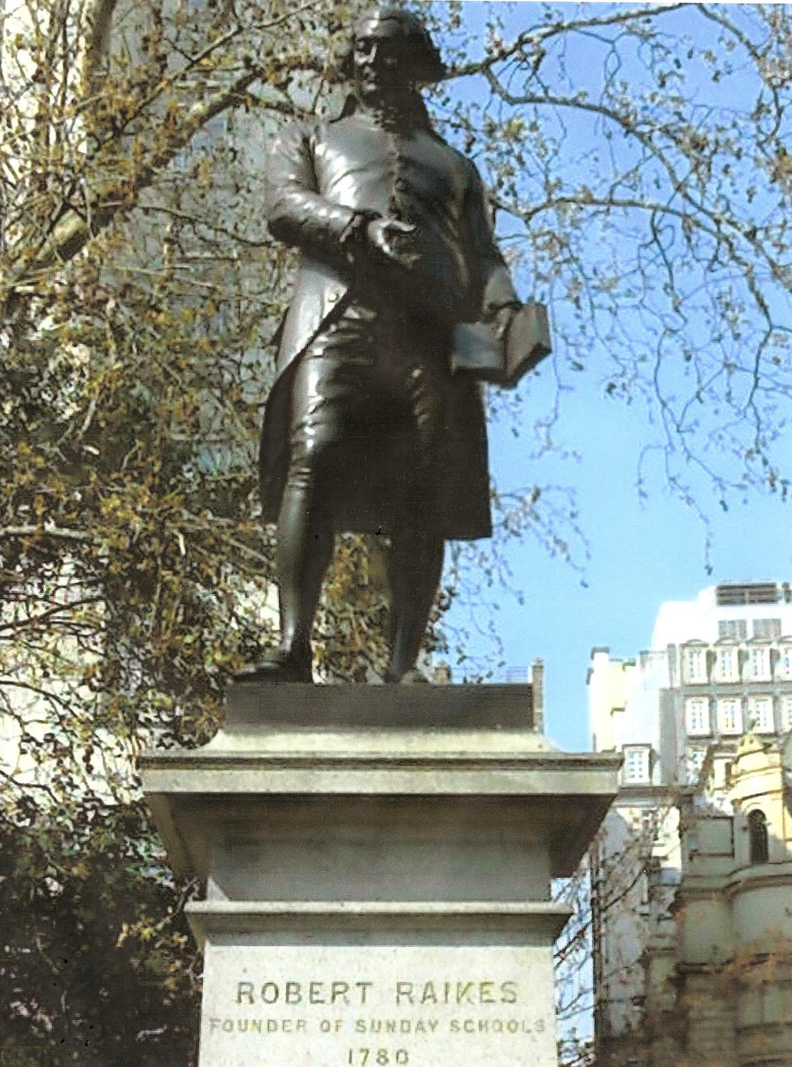 Statue of Robert Raikes on the Embankment between the River Thames and the Savoy Hotel, London